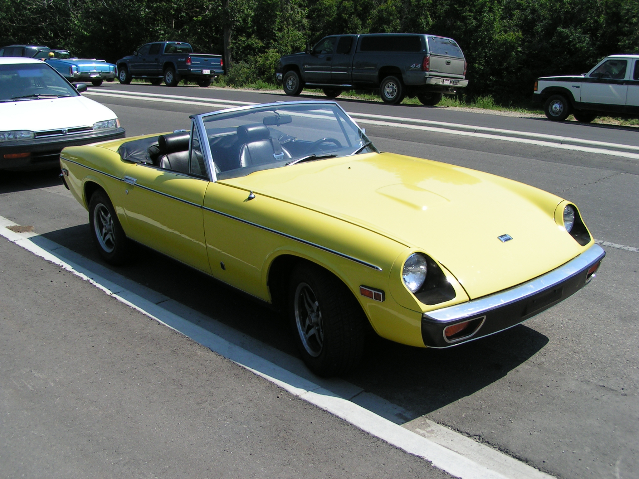 Some of the most interesting cars end up in the parking area. These Jensen Healeys have a Lotus 907 twin cam engine. This one was in very good shape with 100+ after market wheels.Jensen Healey